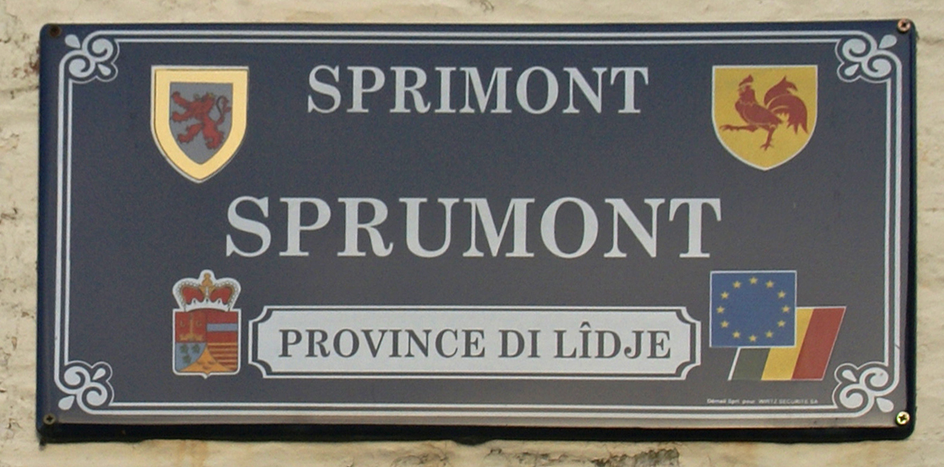 Sprimont (Belgium): Bilingual sign in Walloon and French at the Town Hall